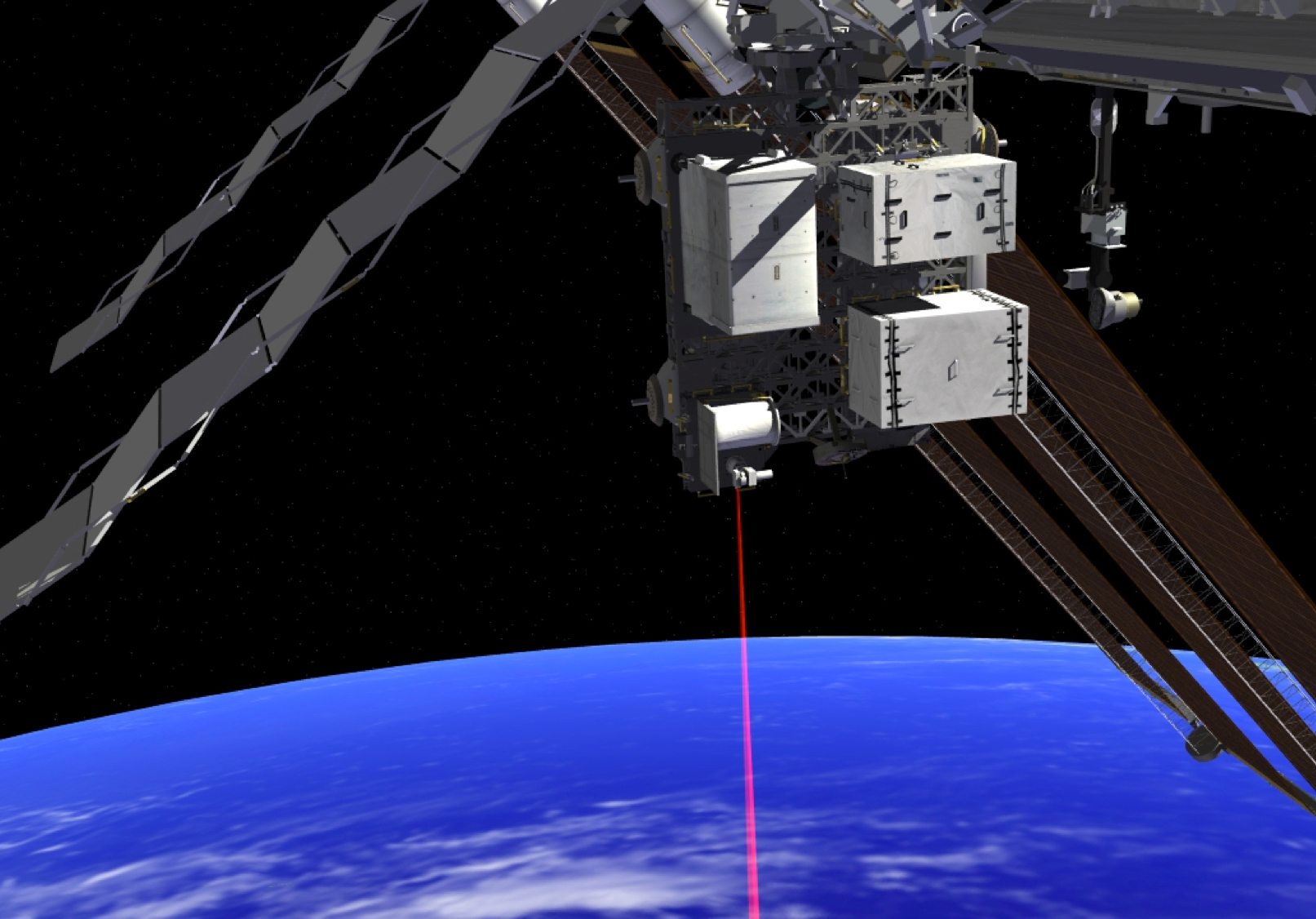 Rendering of OPALS mounted on the ISS This artist's concept shows how the Optical Payload for Lasercomm Science (OPALS) laser will beam data to Earth from the International Space Station.